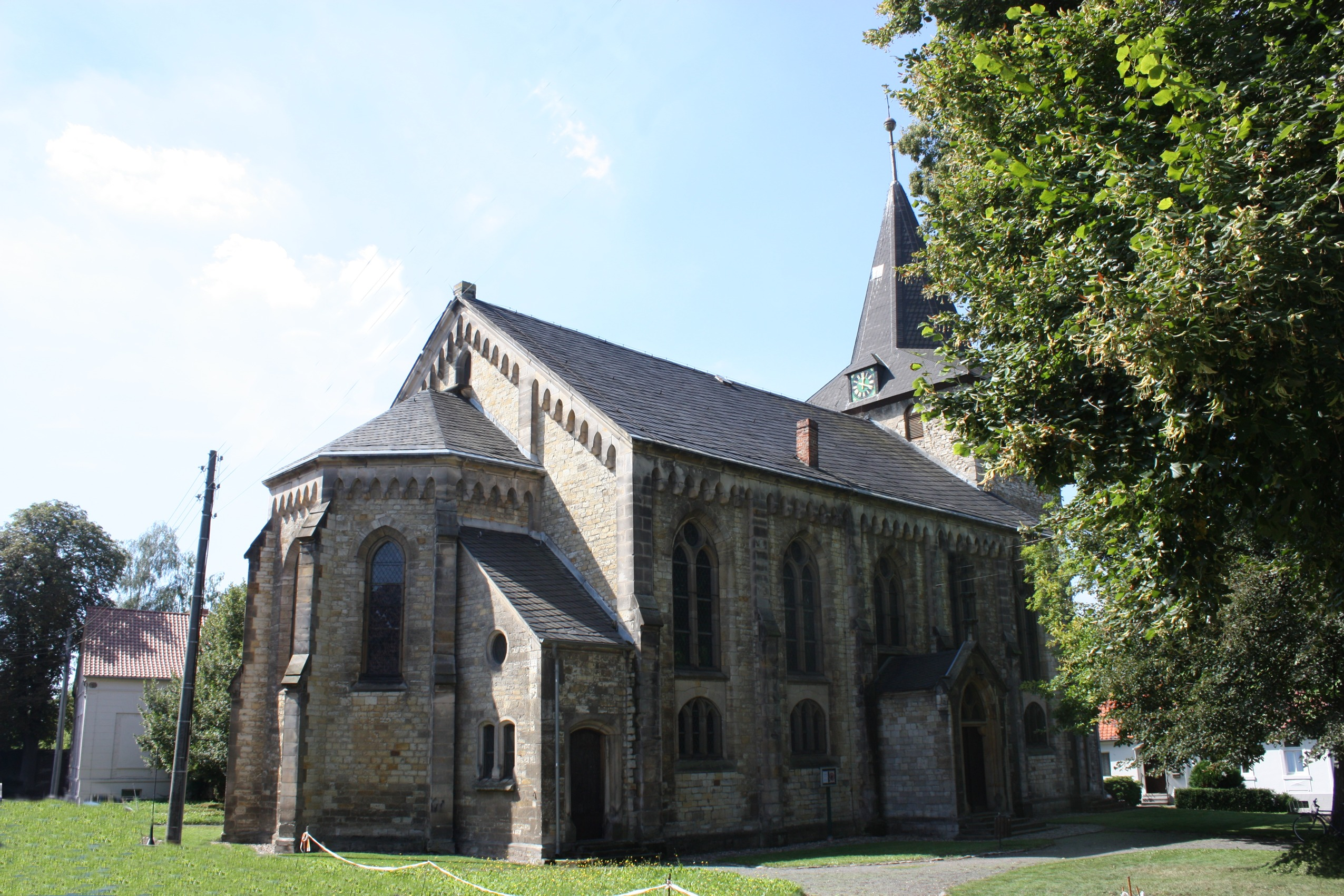 Etgersleben (Börde-Hakel), the village church St.Michael